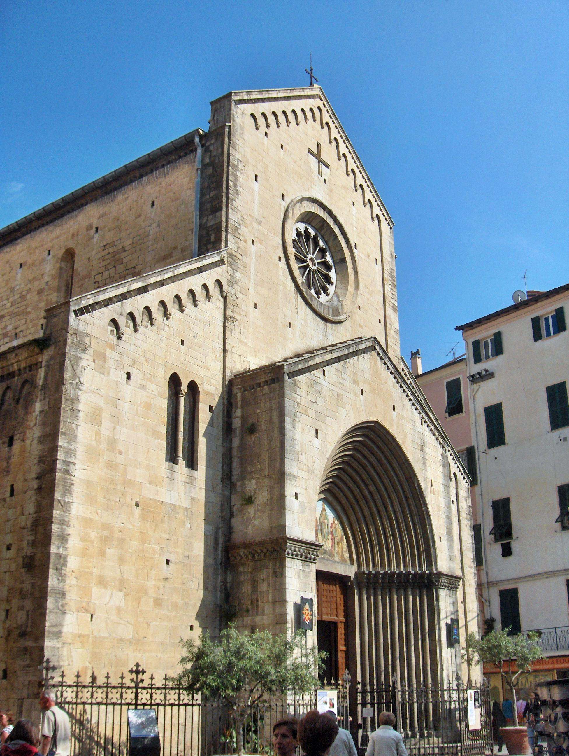 Façade of the basilica and cathedral San Siro, Sanremo, Italy